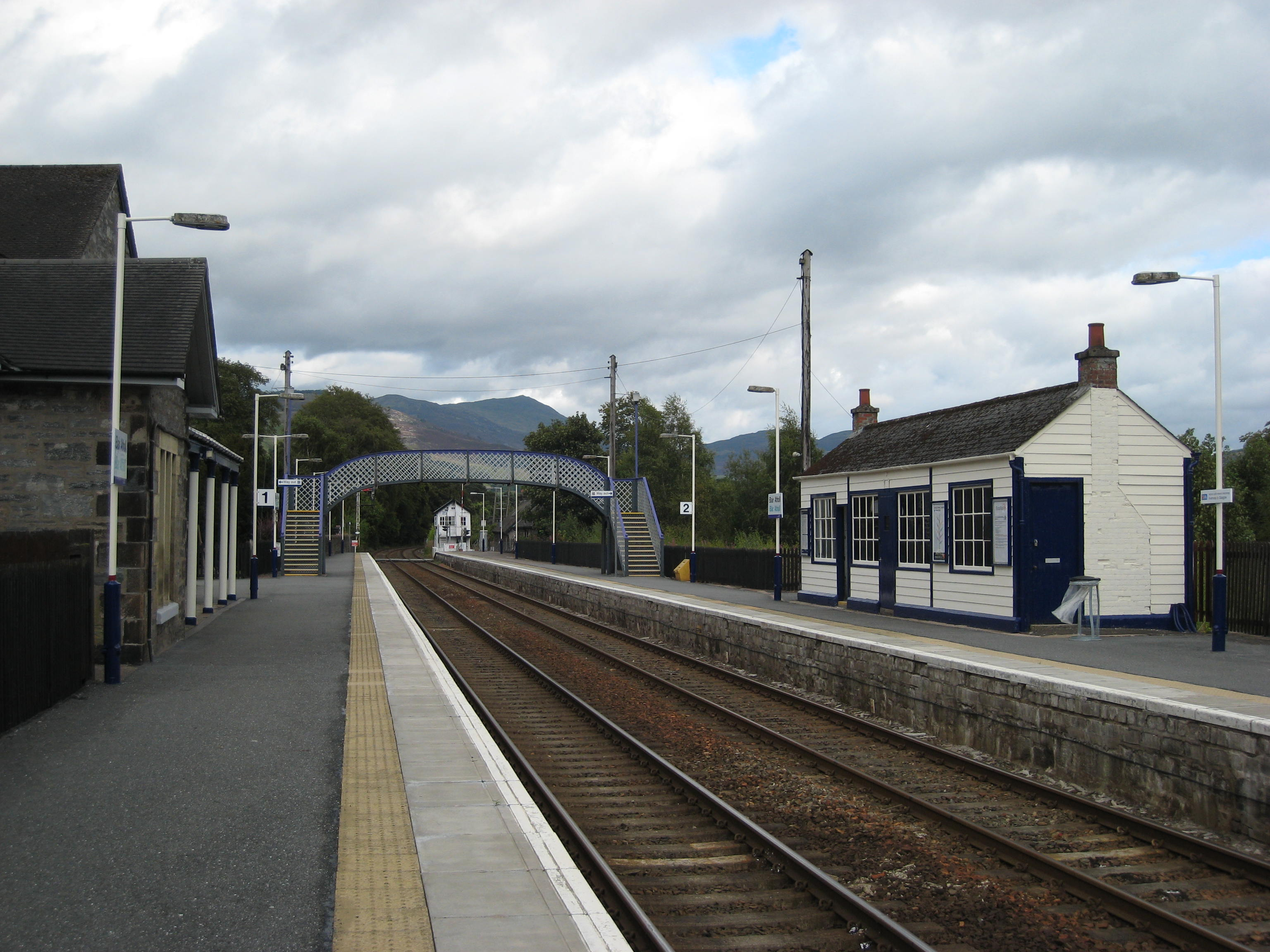 Blair Atholl railway station, looking south